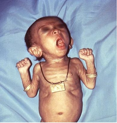 This image depicts a female infant who presented to a clinic suffering from what was diagnosed as pertussis. Pertussis is a highly communicable, vaccine-preventable disease due to Bordetella pertussis, a gram-negative coccobacillus, lasting for many weeks and typically afflicts children with severe coughing, whooping, and posttussive vomiting.